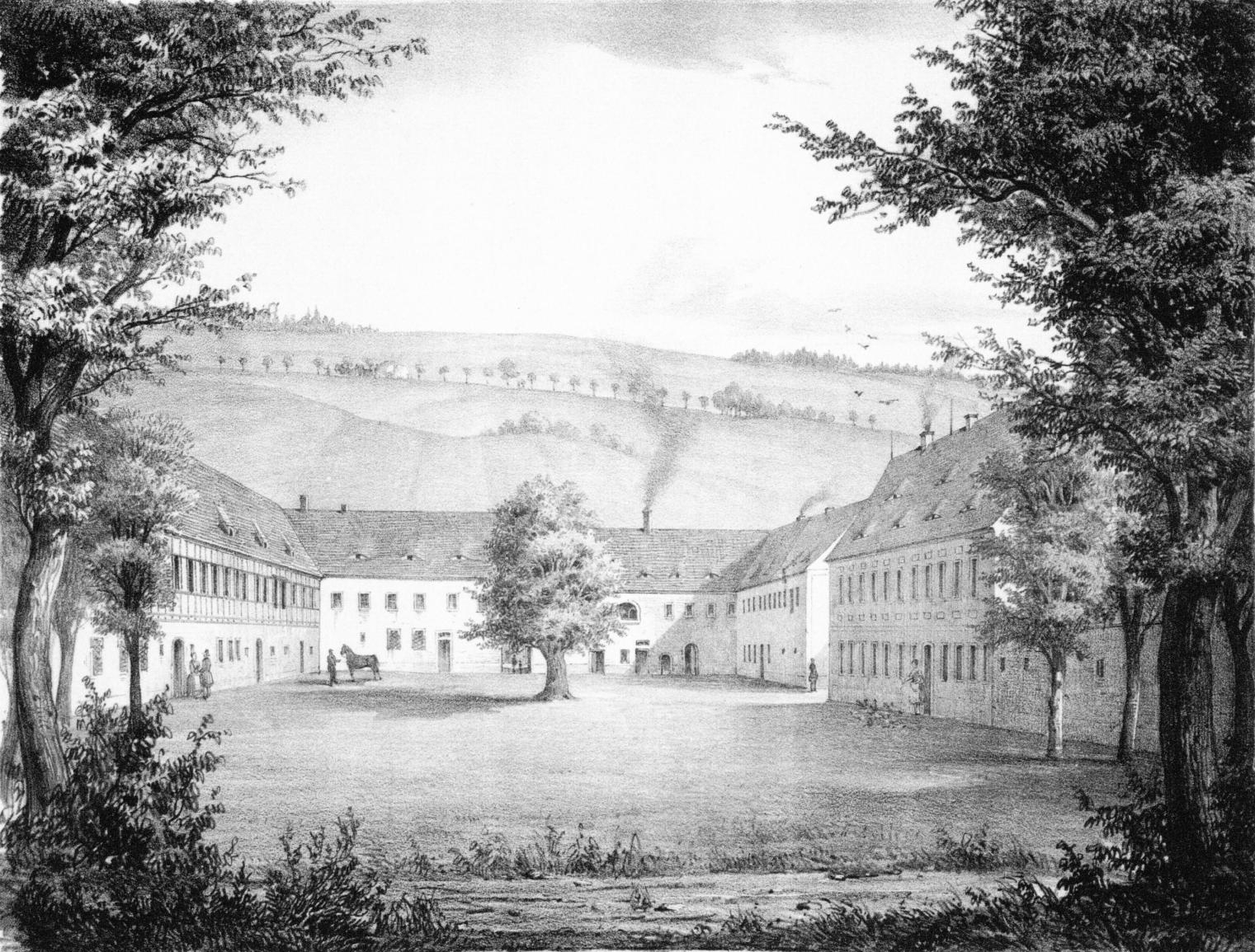 manor Olbernhau in the Erzgebirge